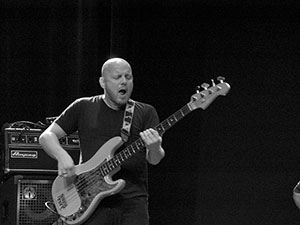 Ingebright Haaker Flaten